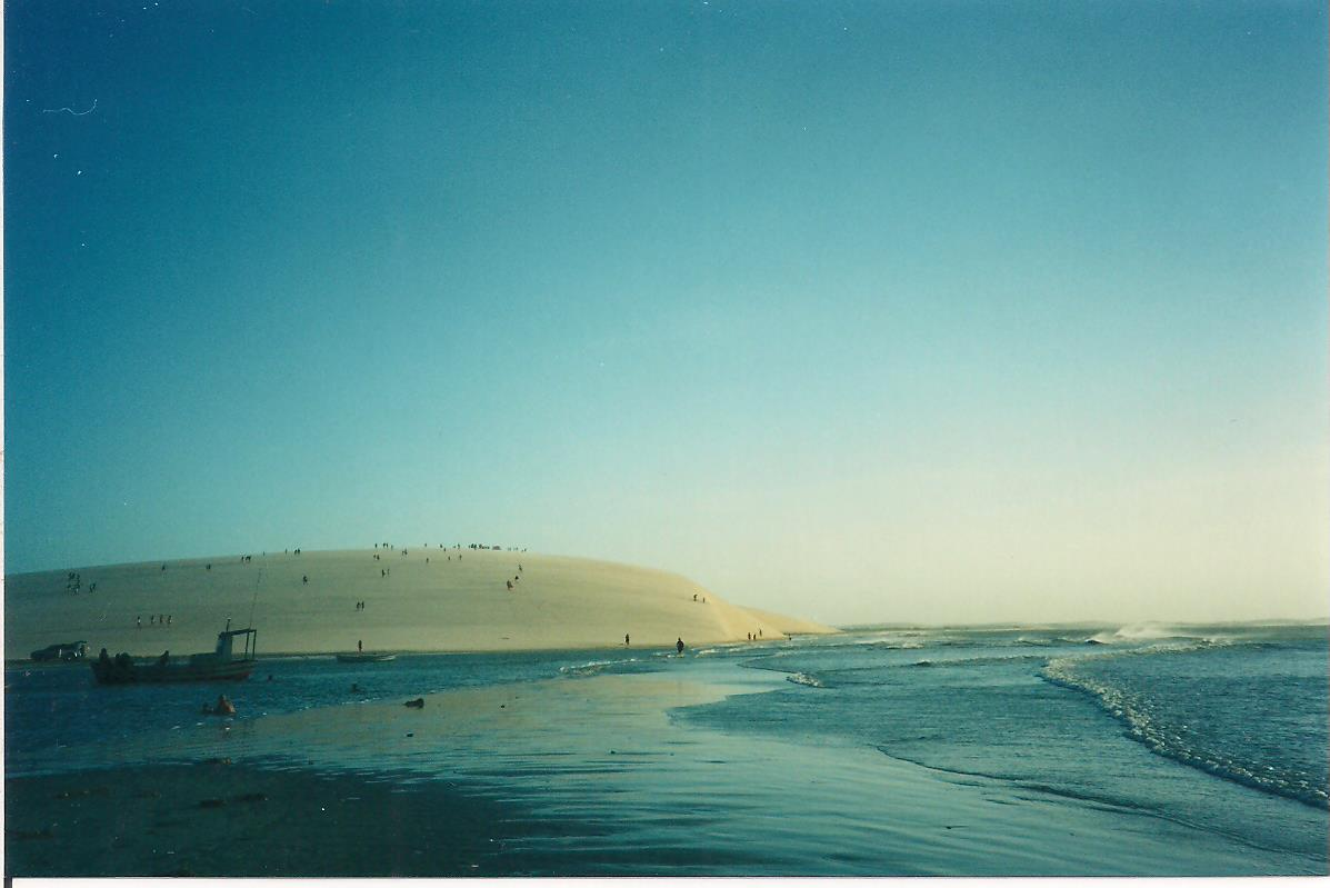 Jericoacoara National Park -Jijoca de Jericoacoara(Ceará-Brasil) Sunset Dune and the beach of Jericoacoara Village (great sea for windsurfing).